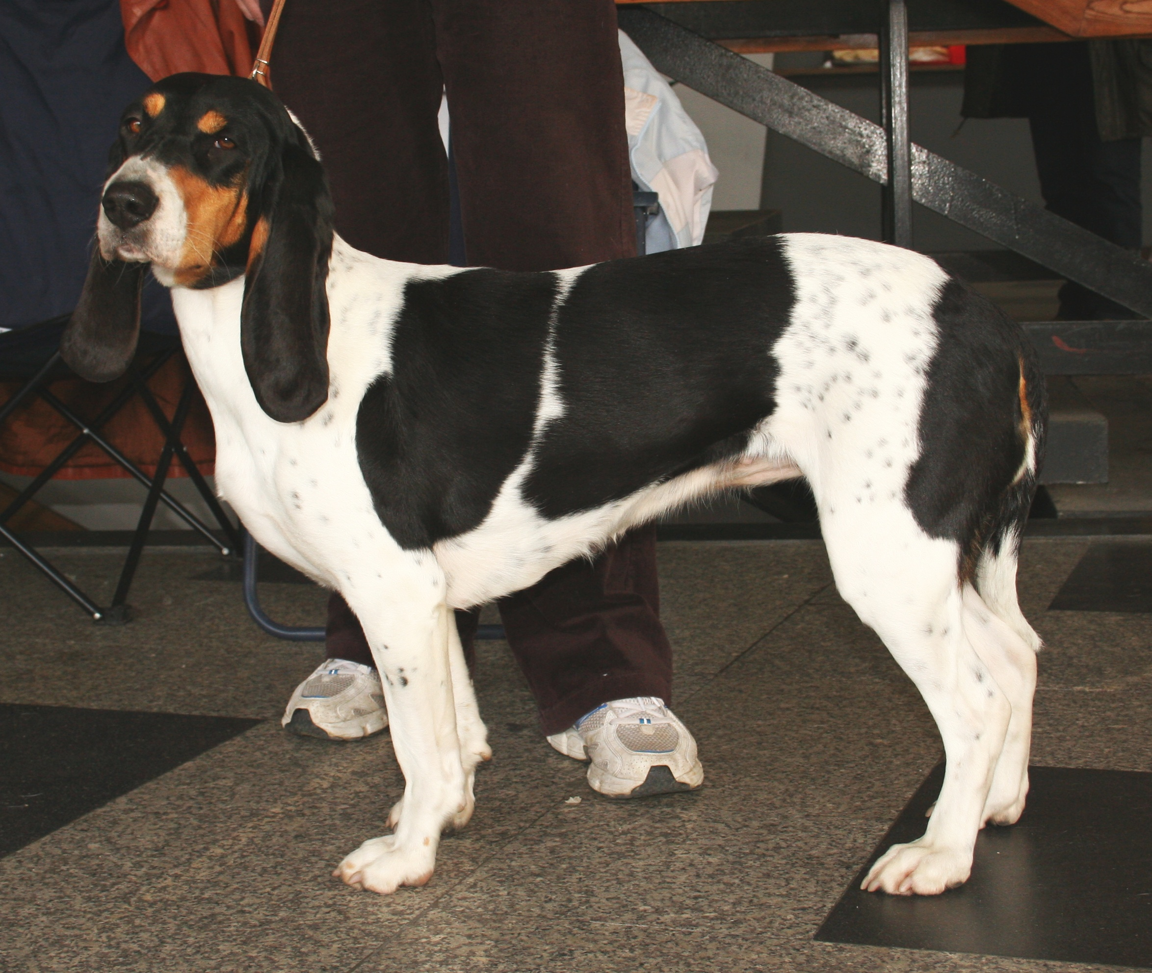 Bernese Hound during International show of dogs in Katowice - Spodek, Poland